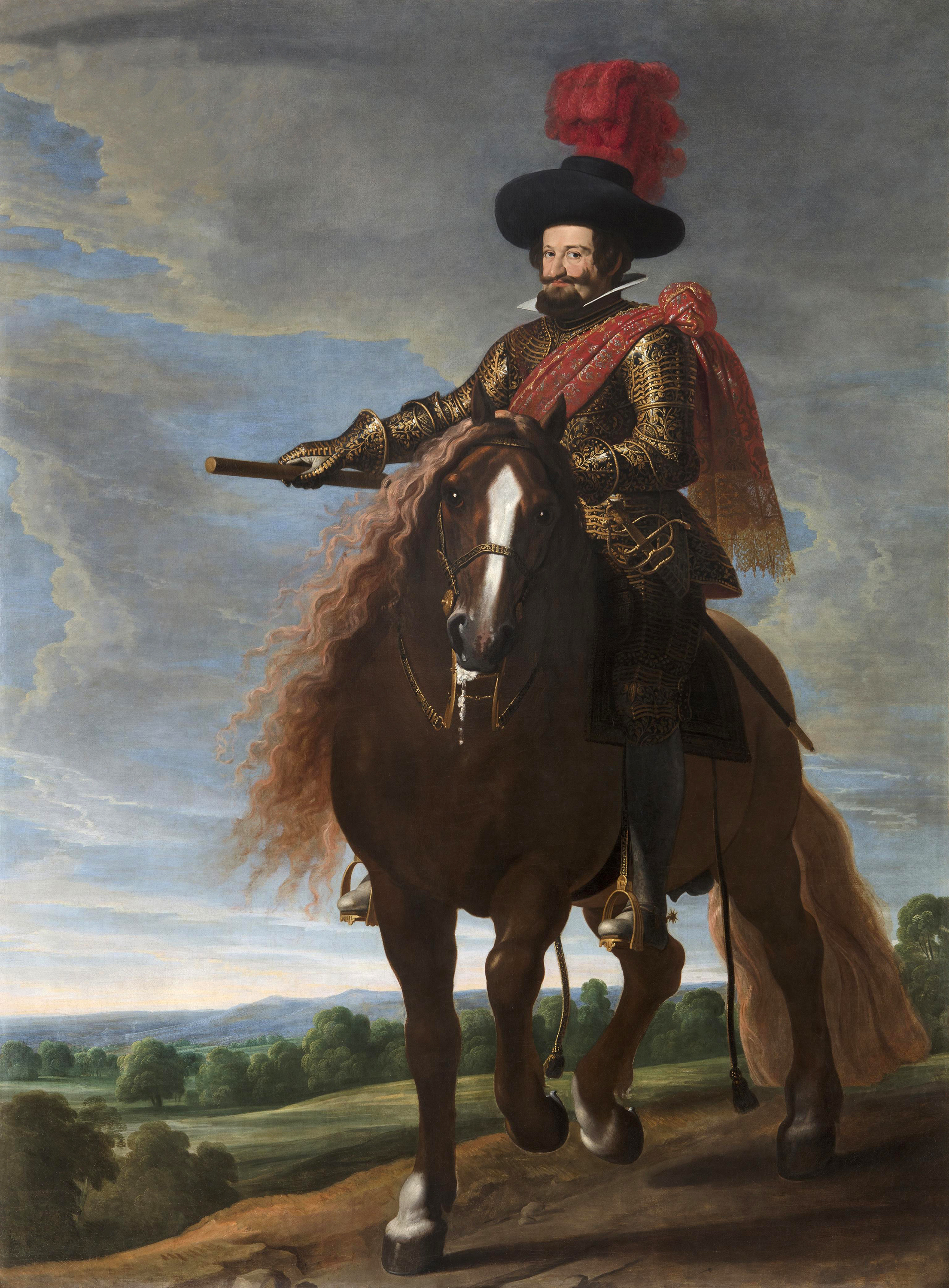 Portrait of Gaspar de Guzmán, Count-Duke of Olivares, Grandee of Spain (1587 – 1645)